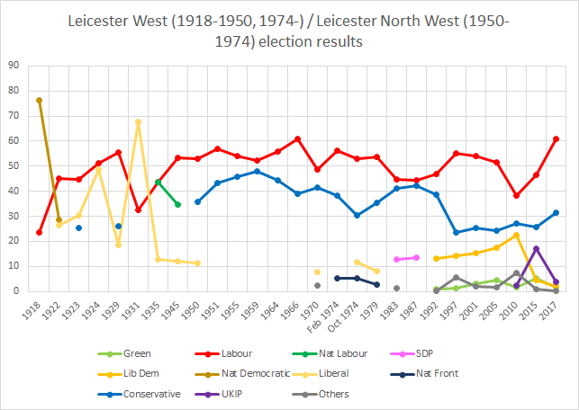 Leicester West election results